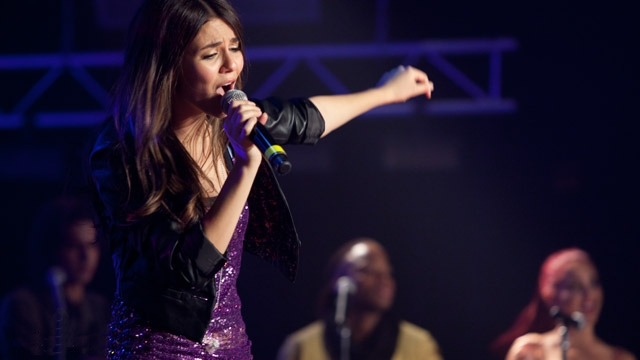 Victorious cast live on Walmart Soundcheck.